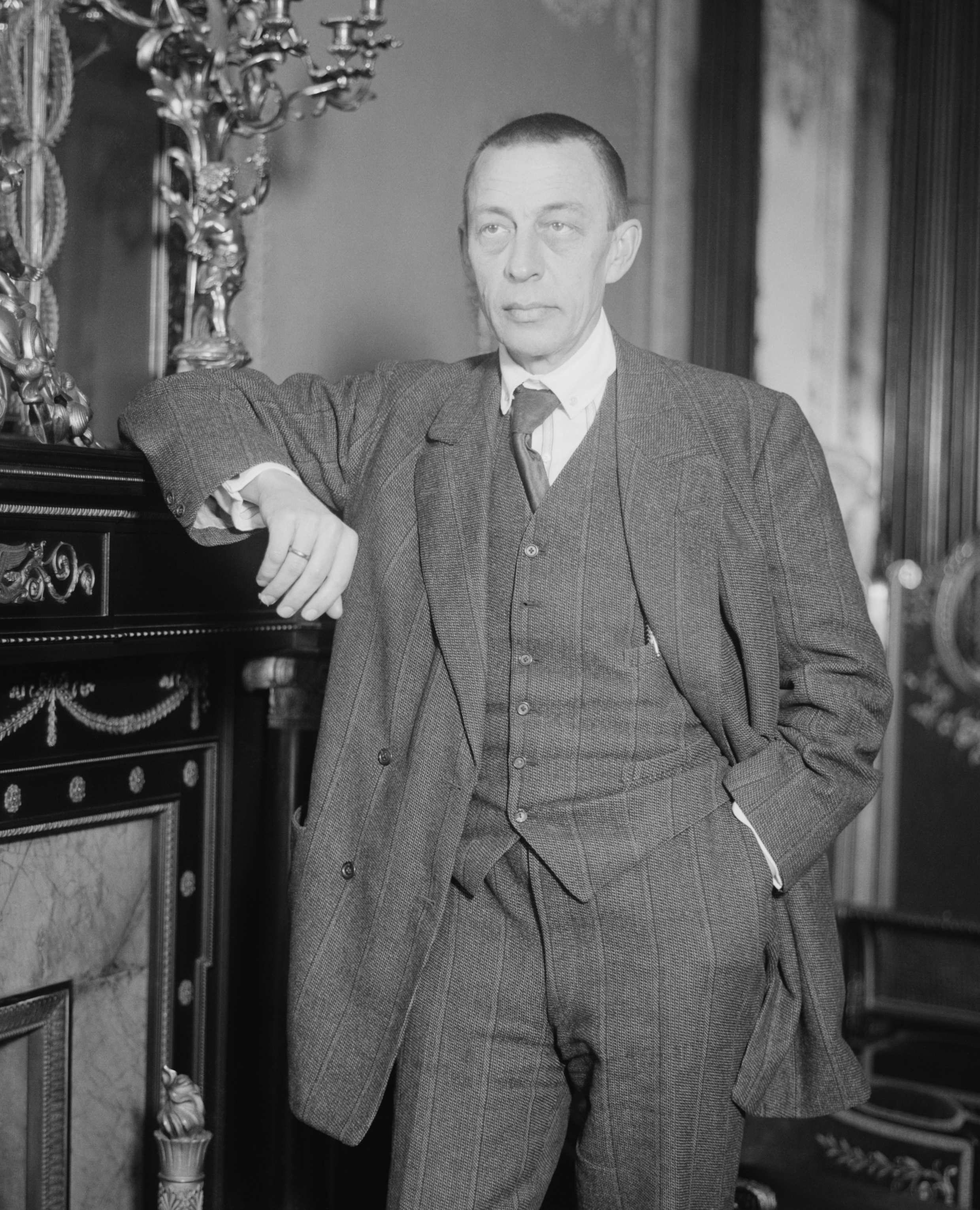 A black and white photo of Russian composer Sergei Rachmaninoff (1873-1943), date of photo not recorded. Digitaly restored using GIMP by Etincelles to remove dust spots, scratches and blemishes. Also cropped to focus on Rachmaninoff.